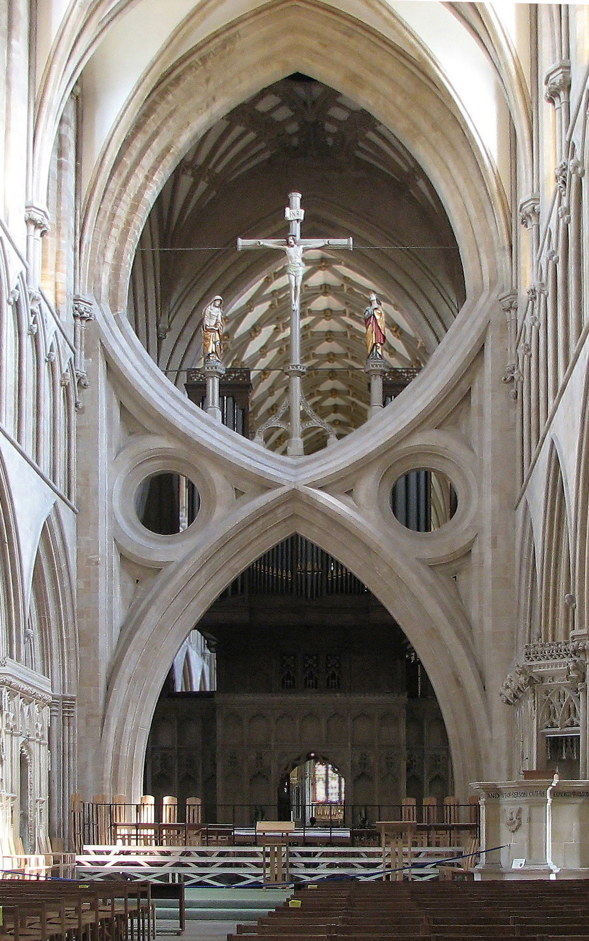 The inverted arch in Wells Cathedral, Wells, Somerset, England